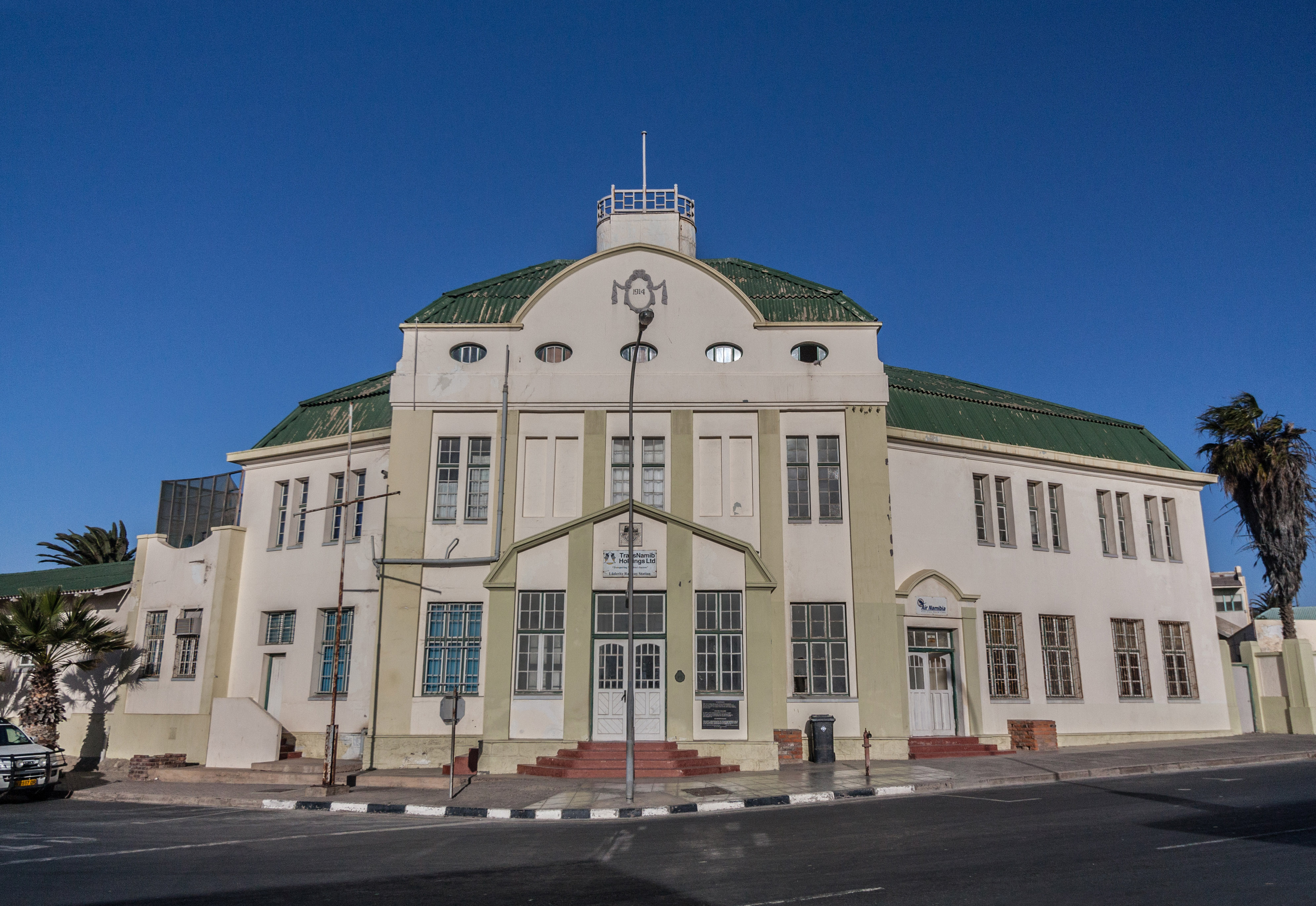 Lüderitz Train Station